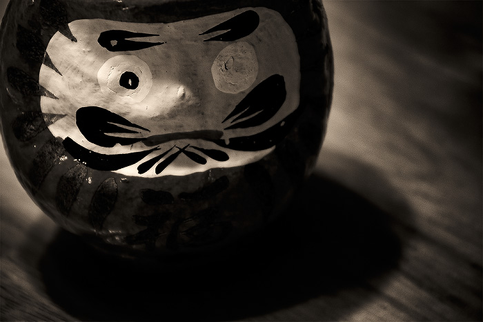 Daruma doll with one eye filled in for wishing. Photograph taken from shifting pixel, photographer: Joe Lencioni.